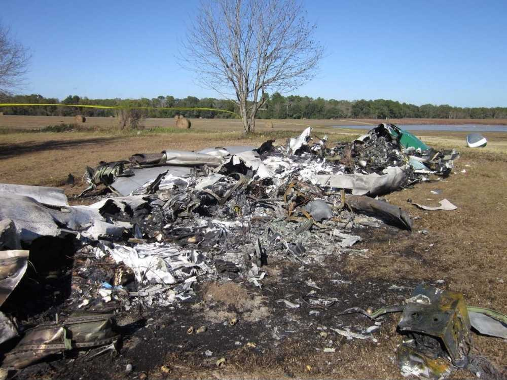 Key Lime Air N765FA wreckage